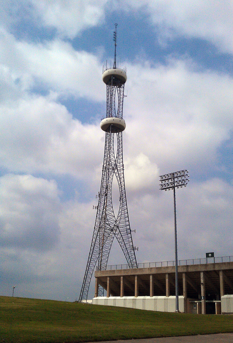 Mesquite Tower in Mesquite, Texas.